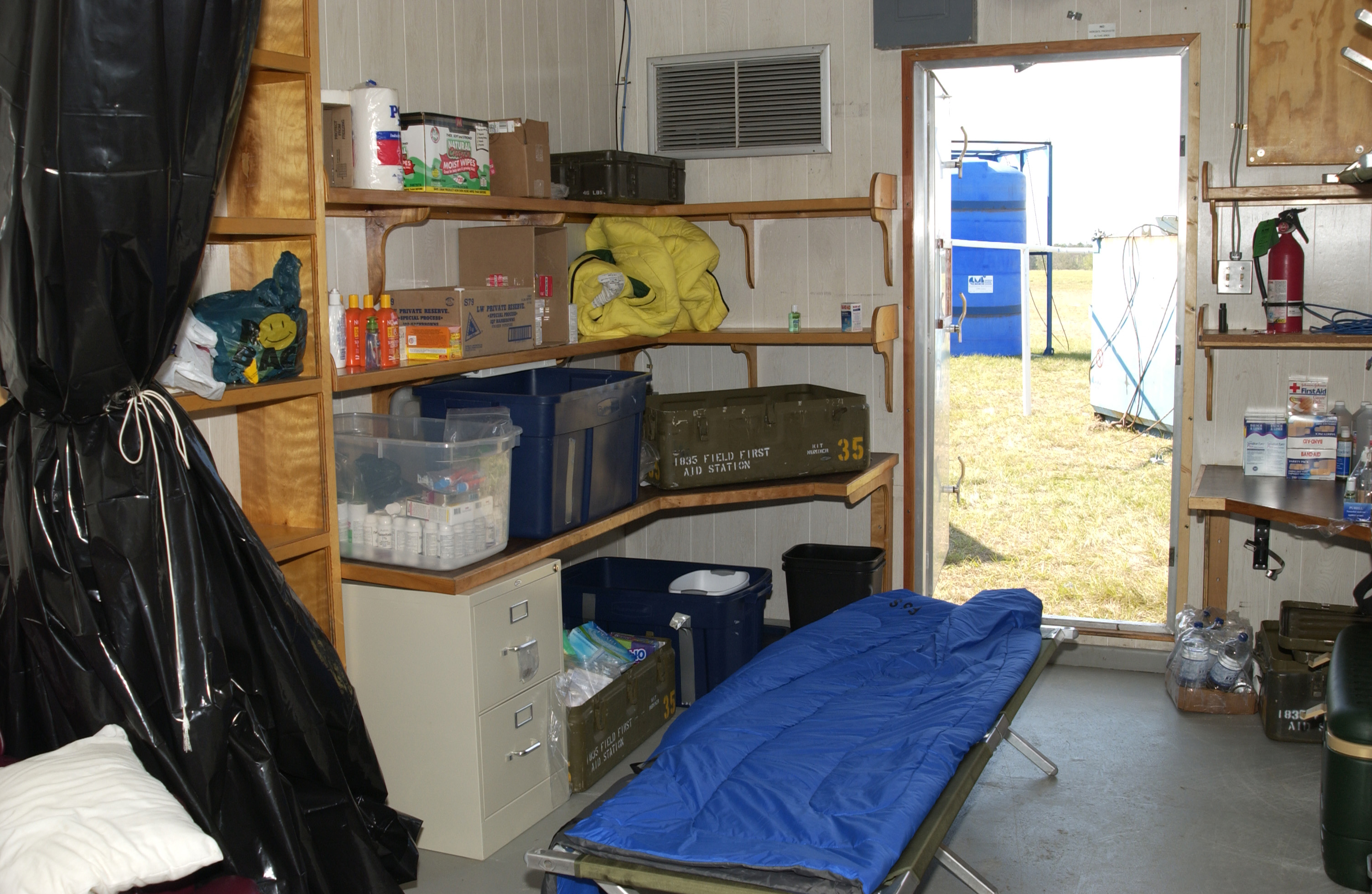 Pensacola, FL, October 12, 2004 -- The interior of the first aid station at Saufley Field which serves as a staging area for Hurricane Ivan relief. FEMA NewsPhoto/Bill Koplitz